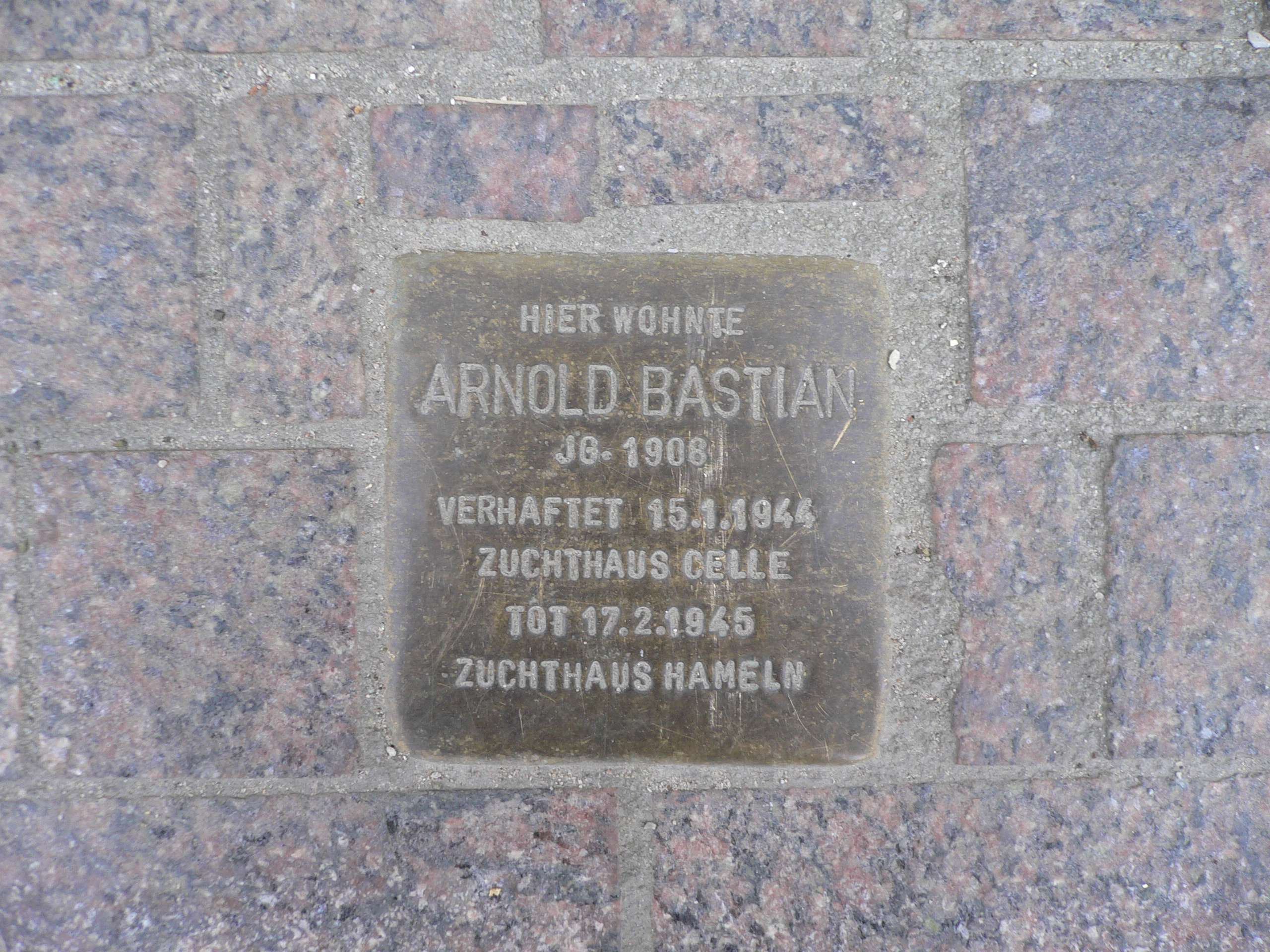 Memorial "Stolperstein" for Arnold Bastian, a homosexual victim of the Nazis. It is located at Grosse Strasse 54 in the city Flensburg The text reads: "Here lived Arnold Bastian, born 1908. Arrested 15 January 1944. Penitentiary at Celle. Dead on 17 February 1945 at the penitentiary in Hameln."